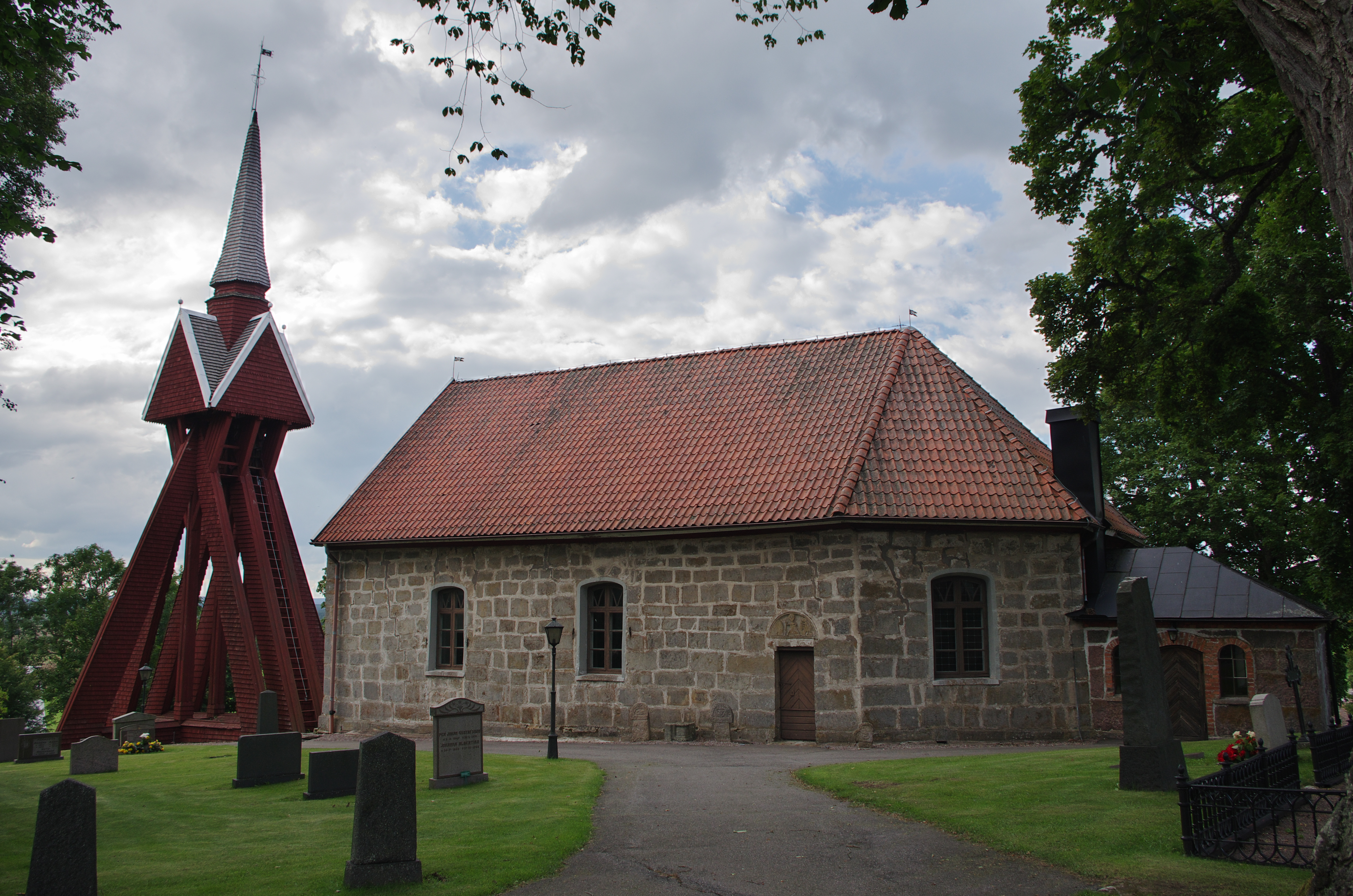 Velinga church in Västergötland, Sweden.